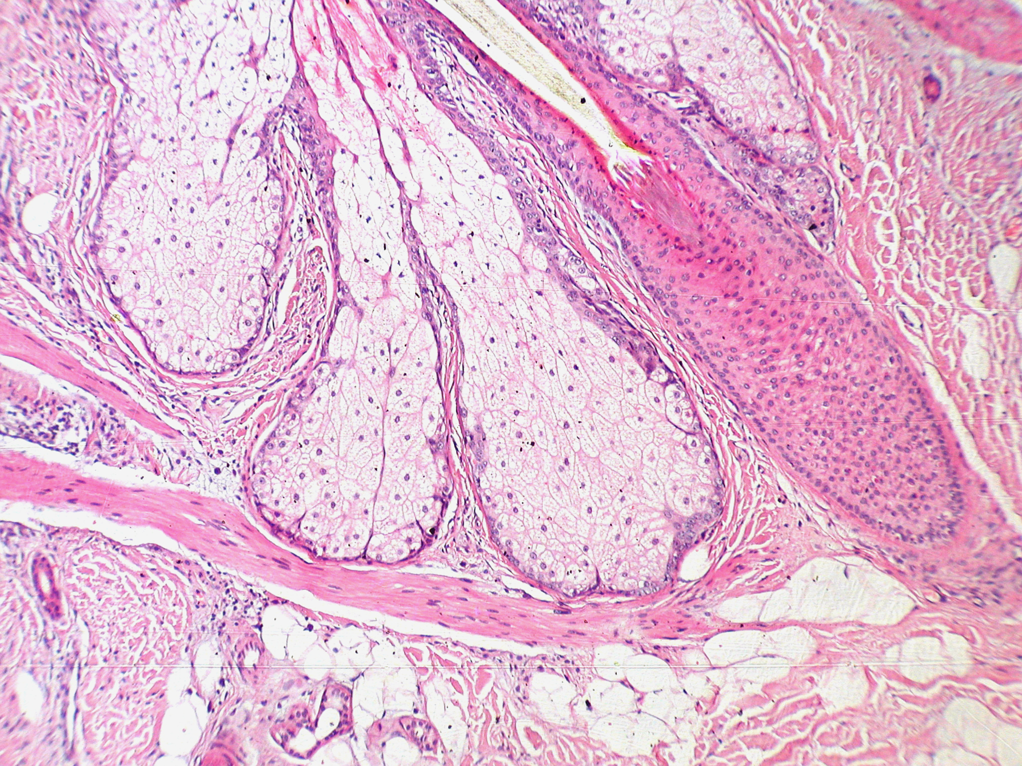 This is a hematoxylin and eosin stained slide at 10x of the base of a full, normal pilosebaceous unit, sectioned from tissue also found to have a benign intradermal nevus.